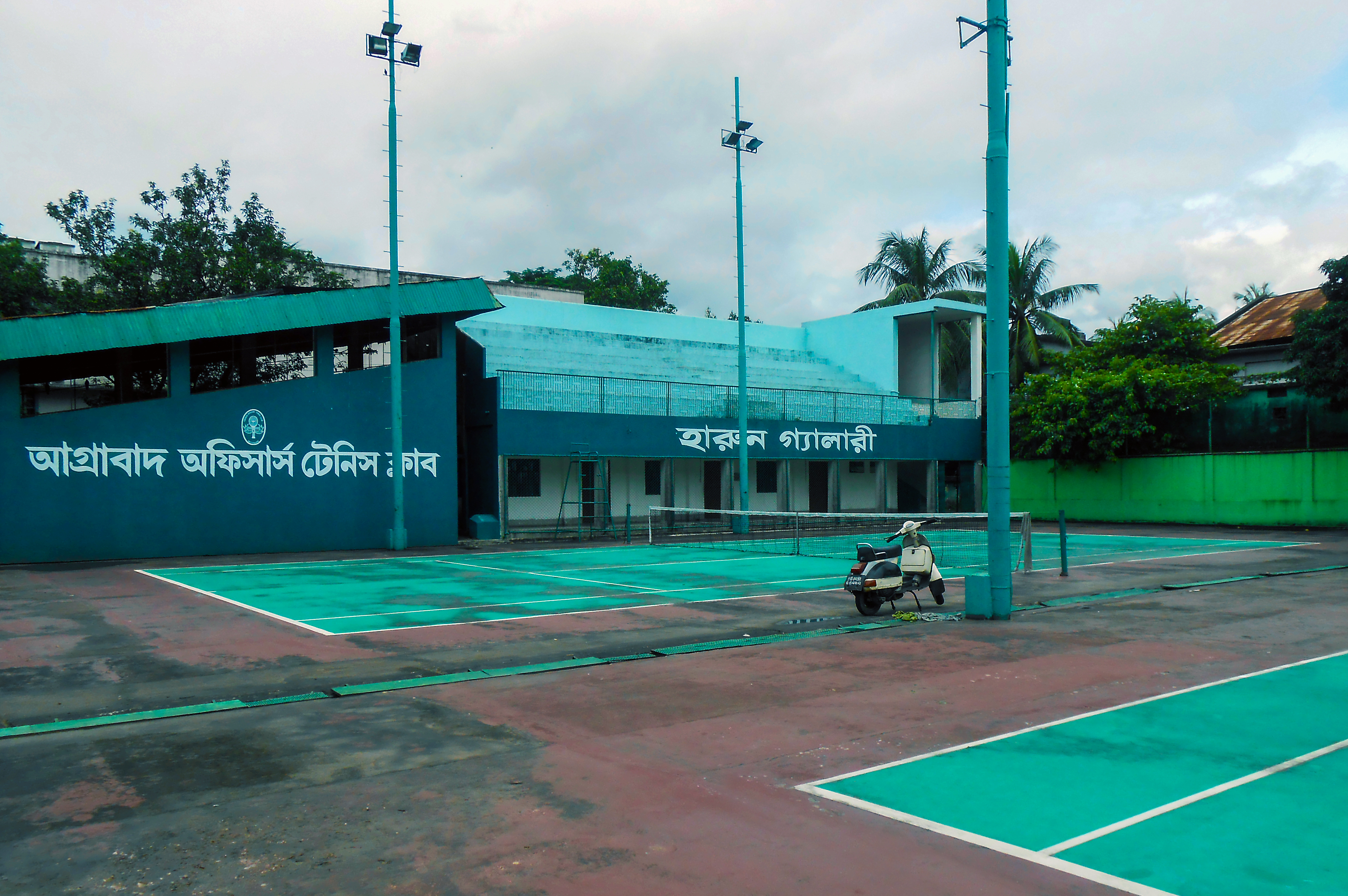 Harun Gallery, Agrabad Officer's Tenis Club, Agrabad.